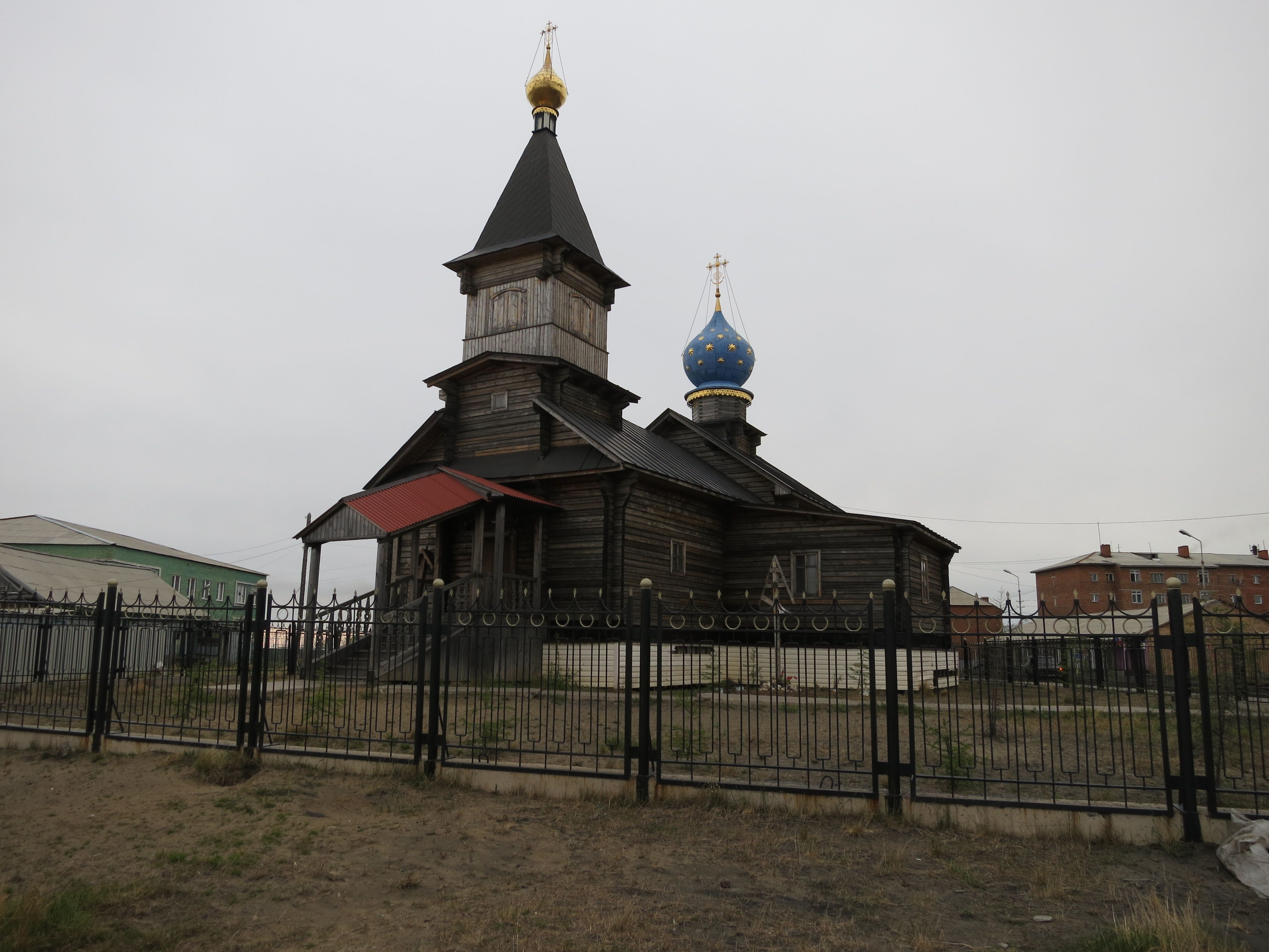 Khatanga